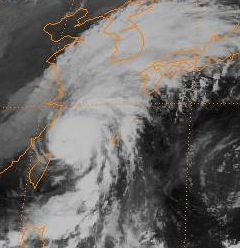 Typhoon Yanni on September 28, 1998